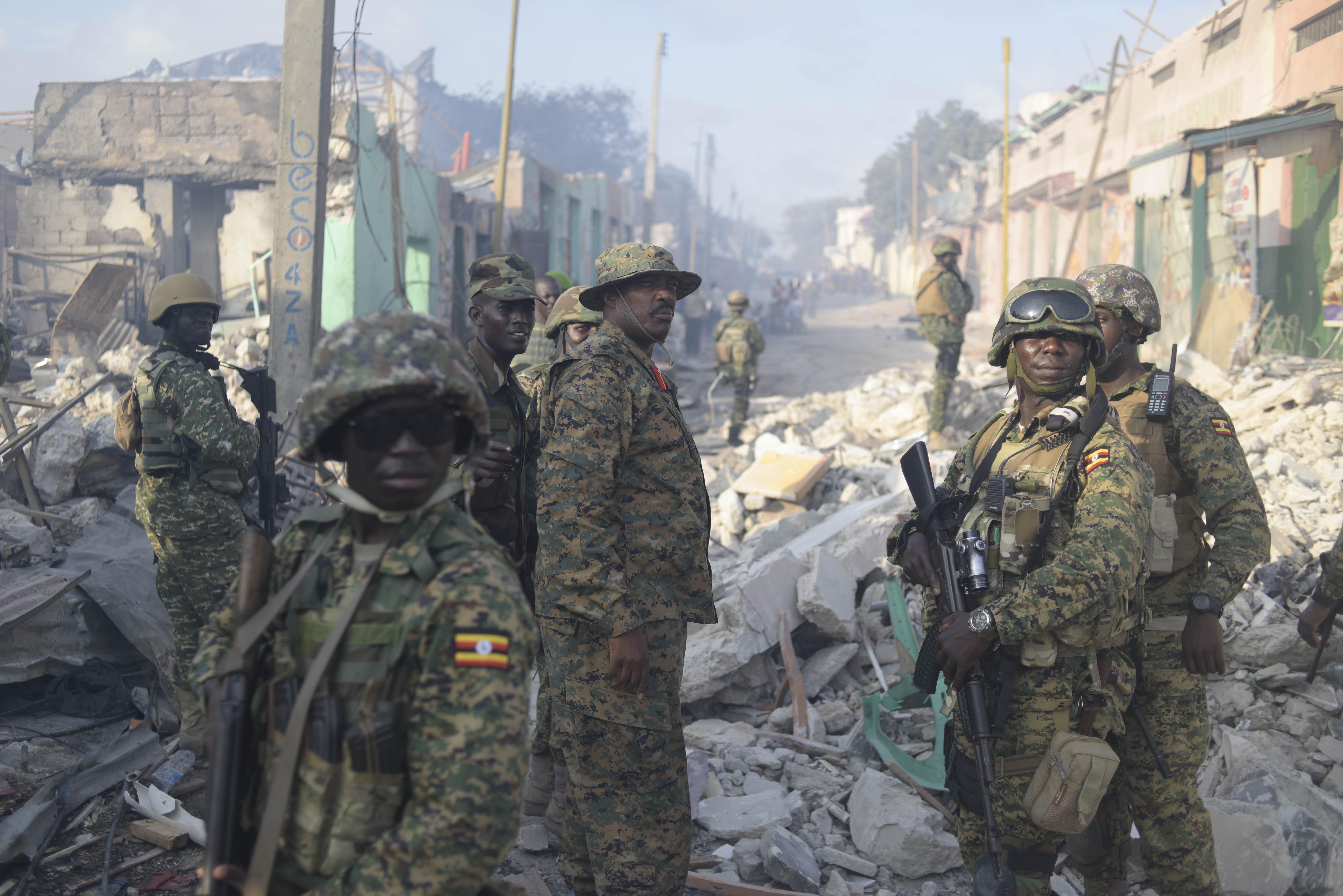 The African Union Mission in Somalia's Ugandan Contingent Commander, Brigadier General Kayanja Muhanga, visits the site of a VBIED attack conducted by the militant group al Shabaab in the Somali capital of Mogadishu on October 15, 2017